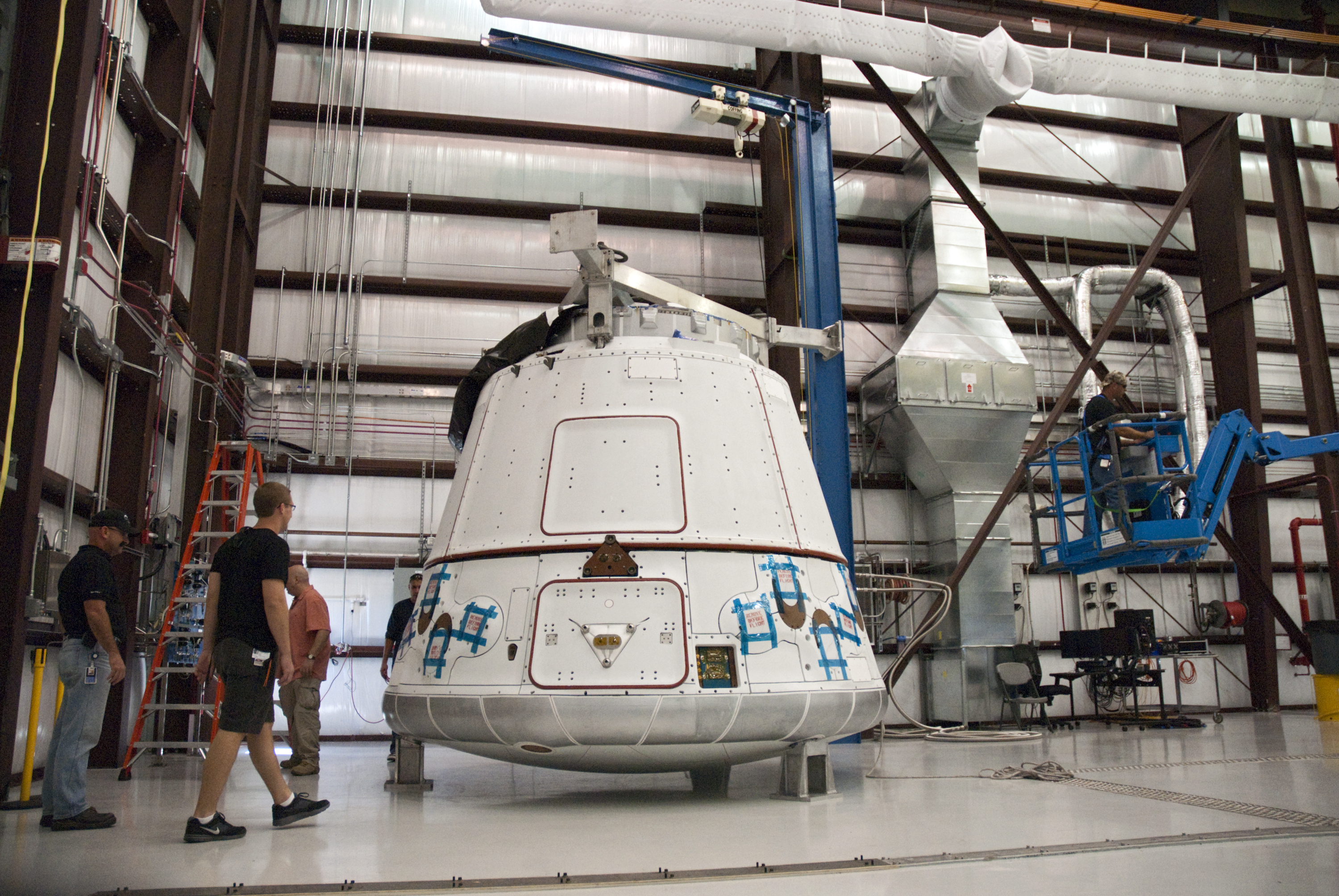 Workers unwrap the latest Space Exploration Technologies Corp. (SpaceX) Dragon capsule inside a building at Cape Canaveral Air Force Station in Florida on Oct. 23 so it can be processed and attached to the top of a Falcon 9 rocket on Space Launch Complex-40 for the company's next demonstration test flight for NASA's Commercial Orbital Transportation Services (COTS) program. SpaceX is one of two companies under contract with NASA to take cargo to the International Space Station. NASA is working with SpaceX to combine its last two demonstration flights, and if approved, the Falcon 9 rocket would launch the Dragon capsule to the orbiting laboratory for a docking within the next several months.